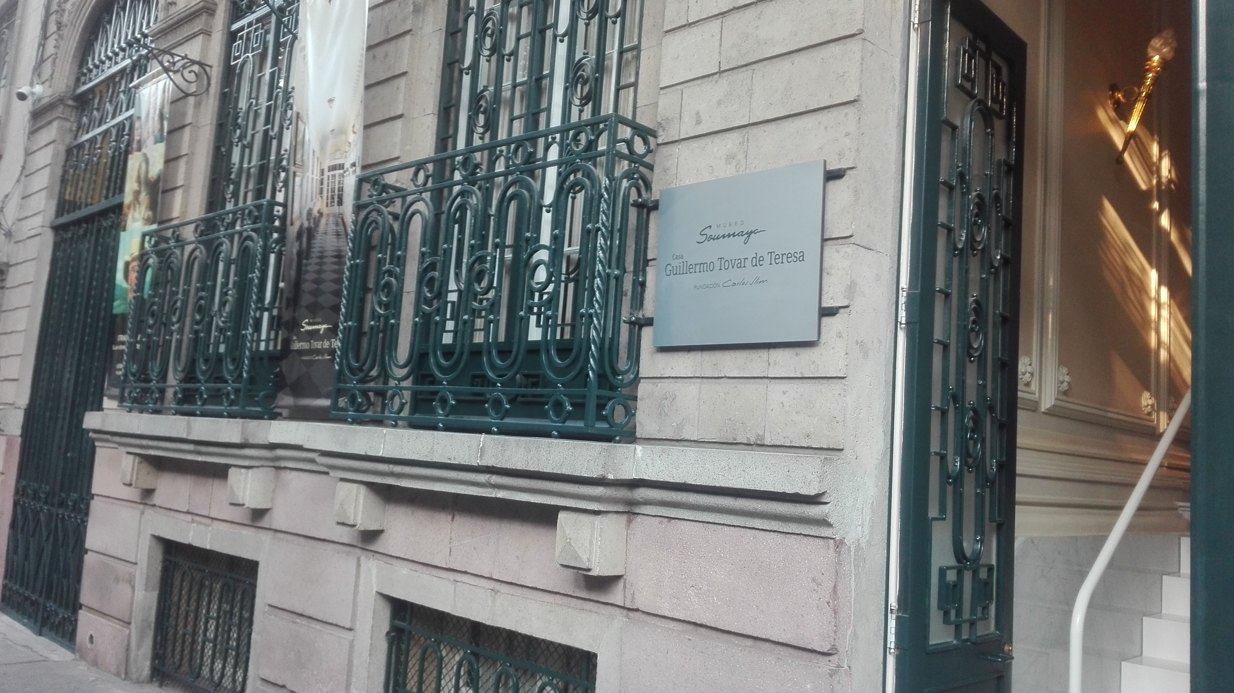 Casa Museo Guillermo Tovar de Teresa, at Valladolid 52, colonia Roma, alcaldía Cuauhtémoc, in Mexico City, shows a huge collection of art works, mainly Mexican art (Baroque art of New Spain, colonial art). Fundación Slim is protecting this collection since December 2018.